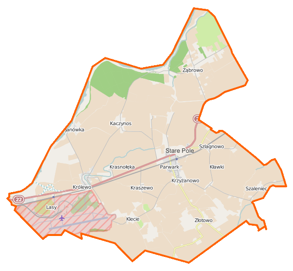 Map of Gmina Stare Pole, Poland This map of Stare Pole (gmina) was created from OpenStreetMap project data, collected by the community. This map may be incomplete, and may contain errors. Don't rely solely on it for navigation.